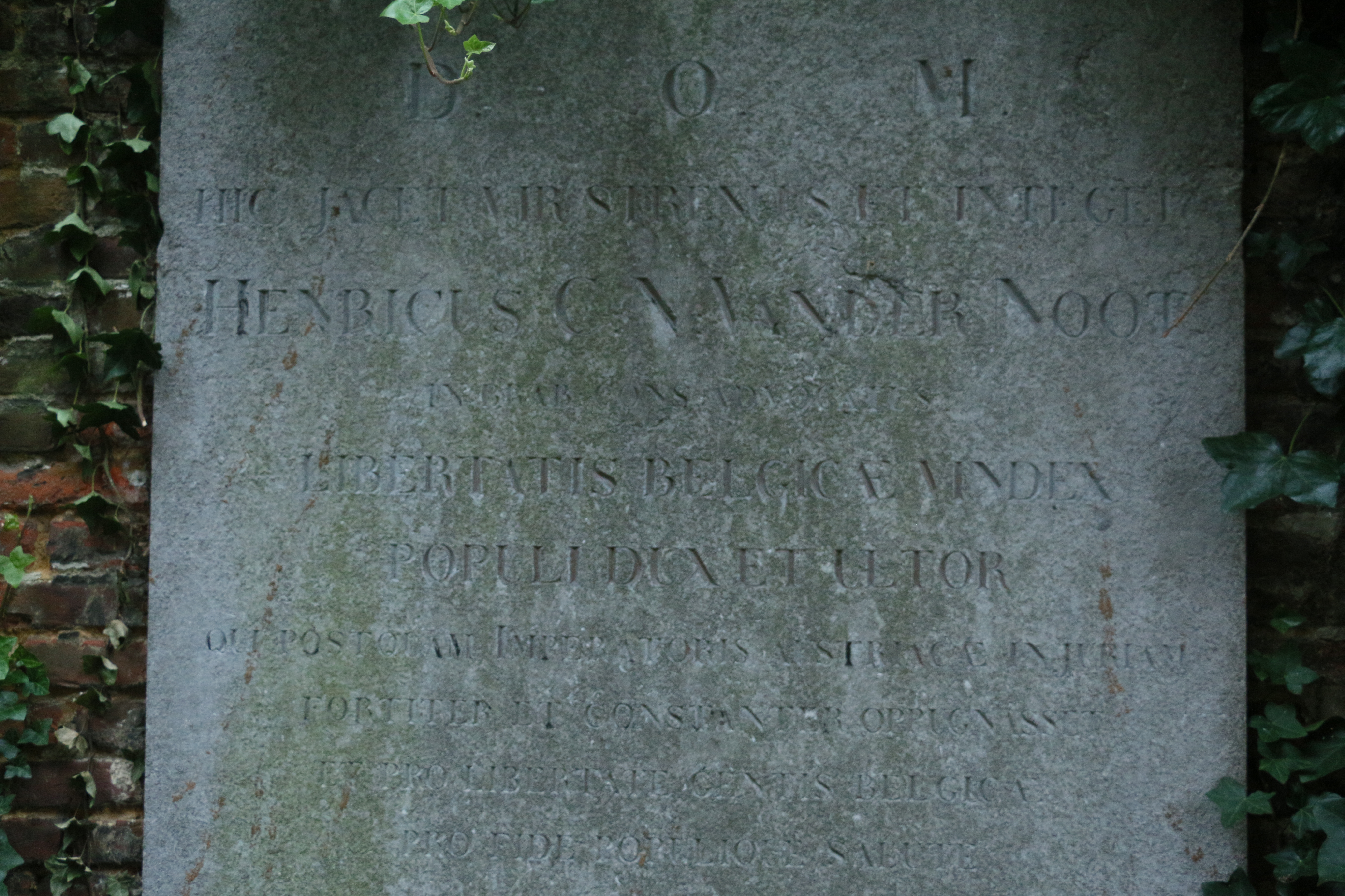 Gravestone of Hendrik van der Noot (1731- 1827)